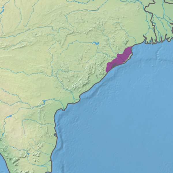 Ecoregion IM0142 - Odisha semi-evergreen forests (in purple)